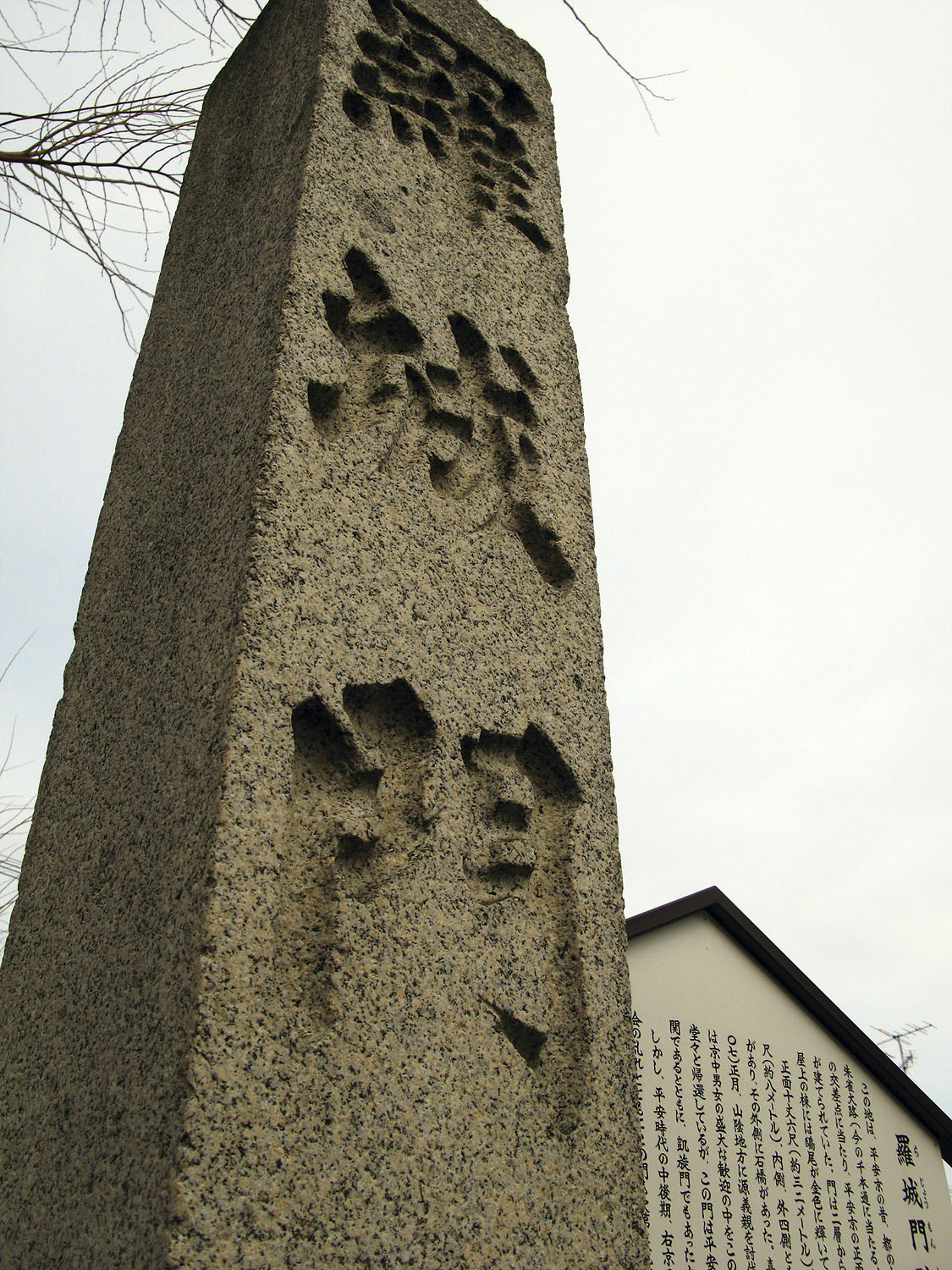 This marker shows the site of the former Rajōmon (Rashōmon), the great south gate to the city of Kyoto, Japan. I took the photo.